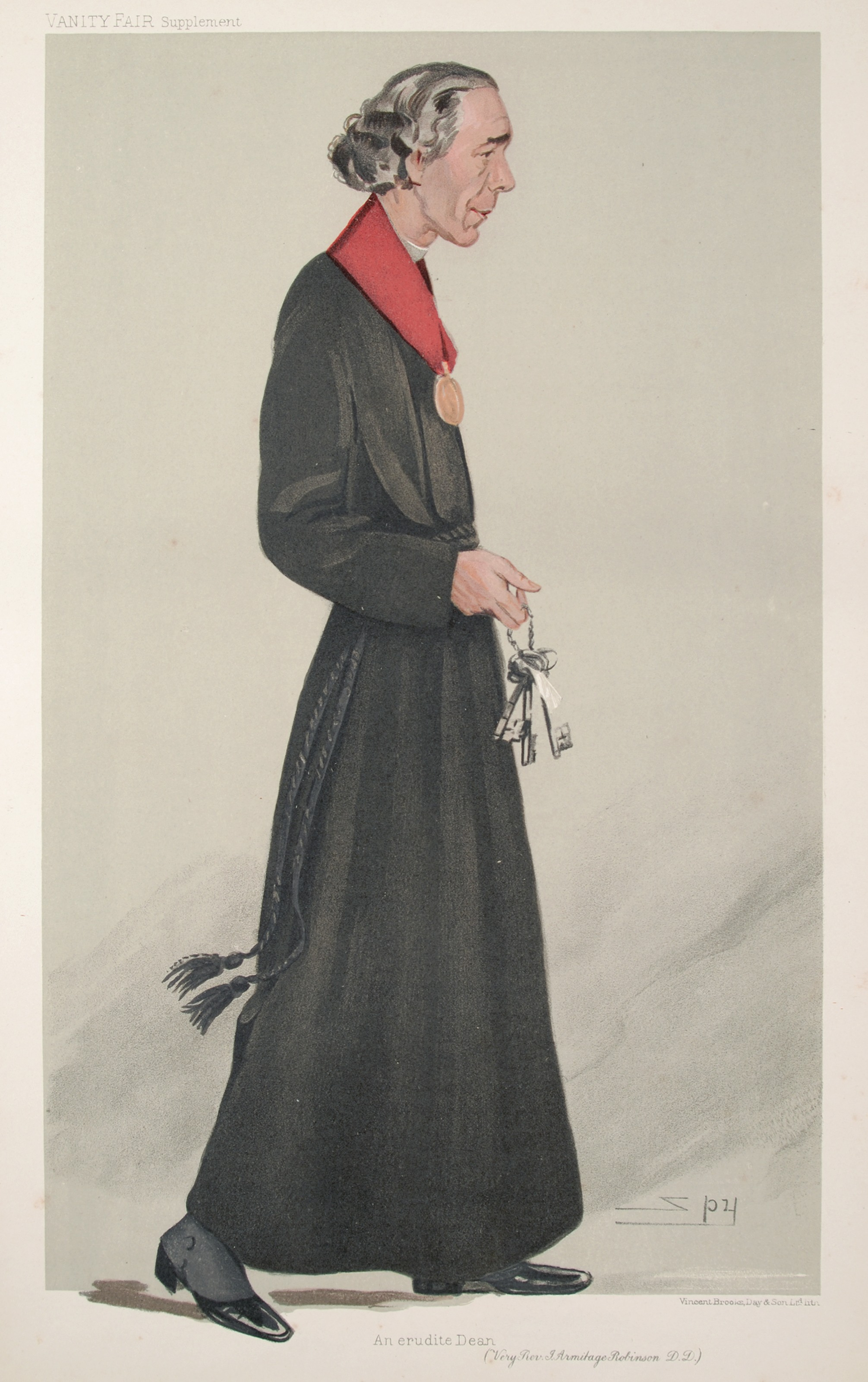 Caricature of Joseph Armitage Robinson (1858 – 1933). Caption read "An erudite Dean".